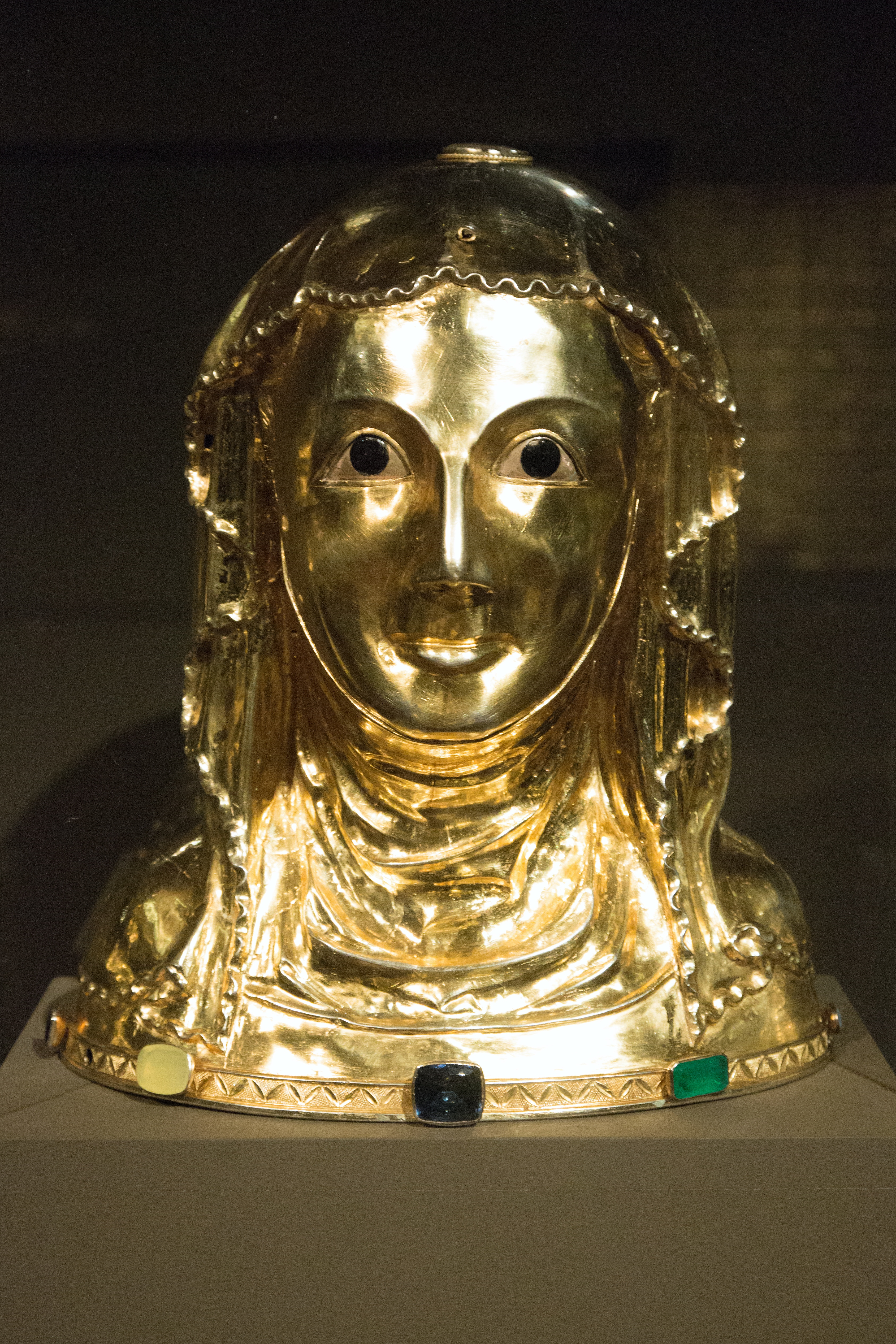 Bust reliquary of St. Ludmila from the Convent of St George at Prague Castle. Bohemia, 1300-1320; gilded silver, crystal, amethyst, coloured glass, wood. Prague, The Metropolitan Chapter of St. Vitus, Inv. No. K 18.